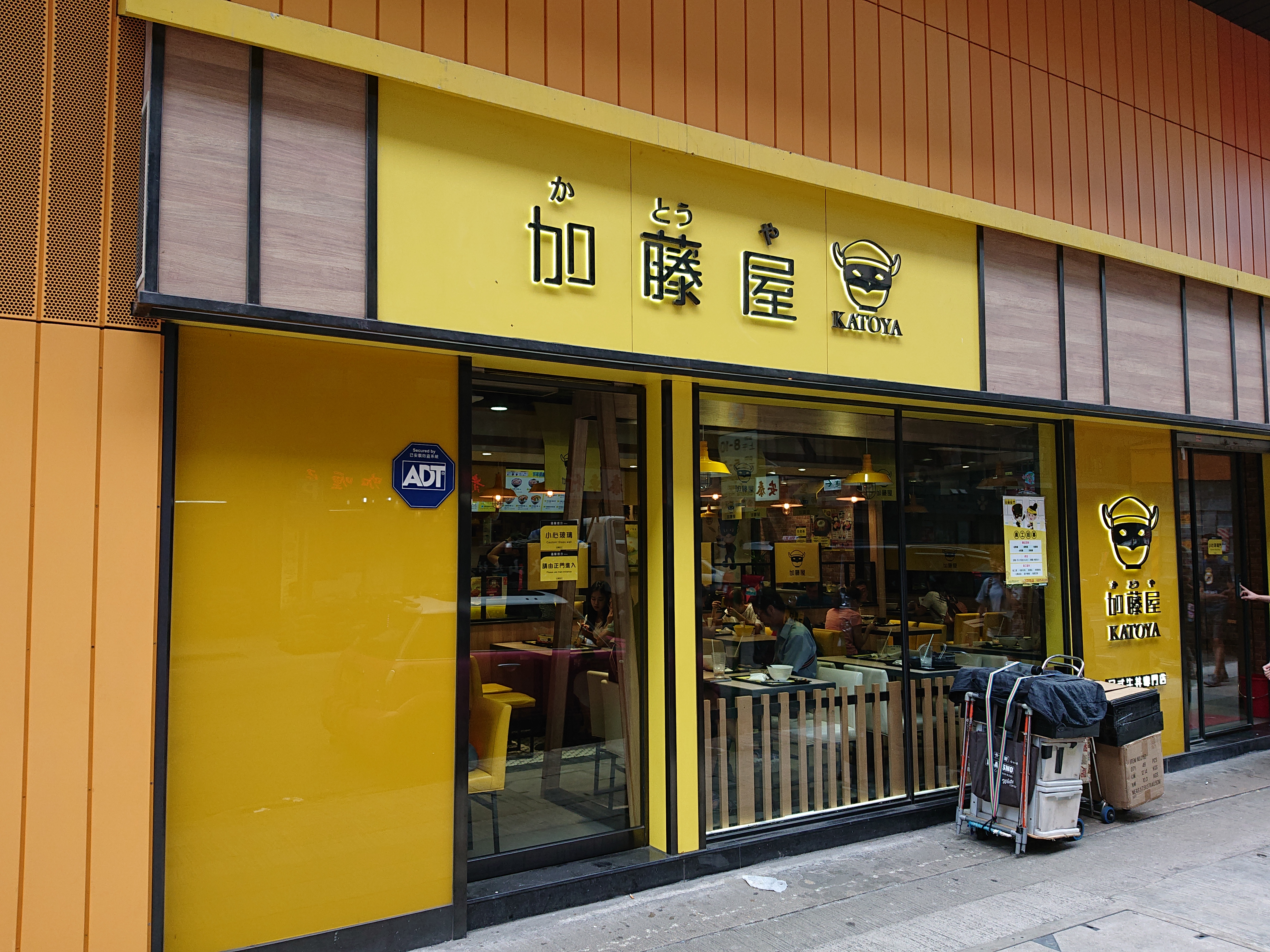 Katoya on Fuk Wa Street